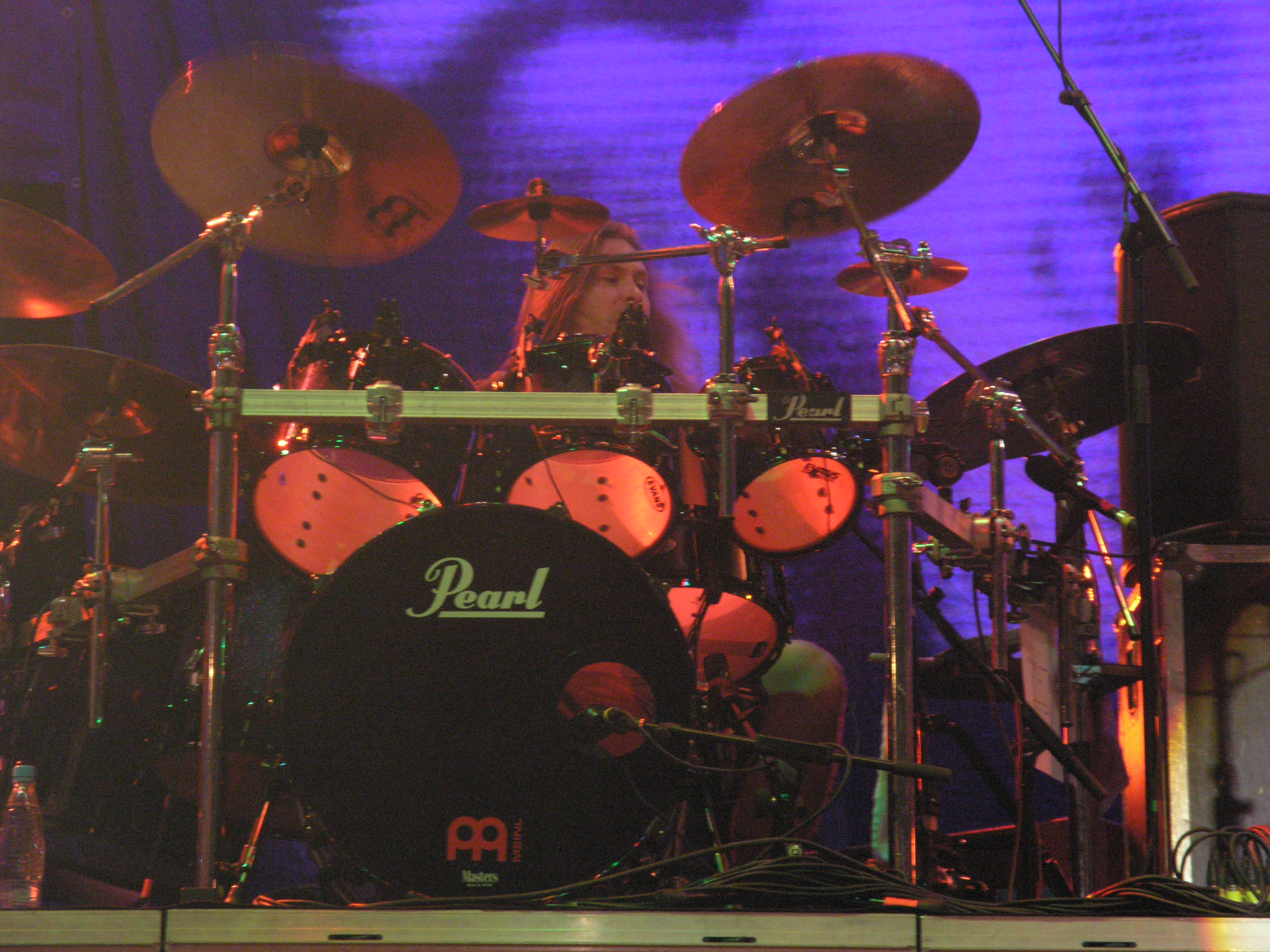 Jaska Raatikainen from Children of Bodom during Masters of Rock 2007 festival